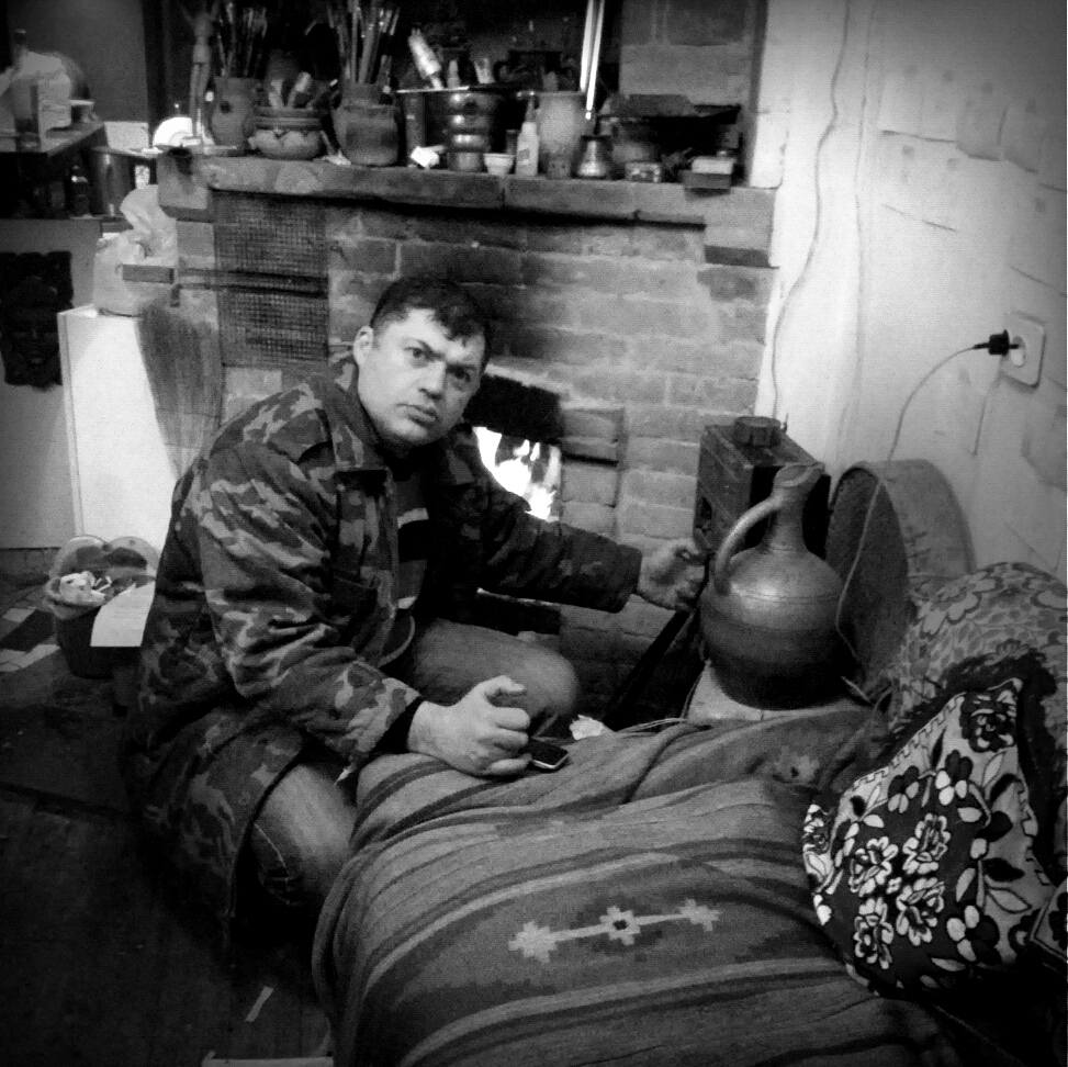 Photo of artist Mkrtich Tonoyan in his studio